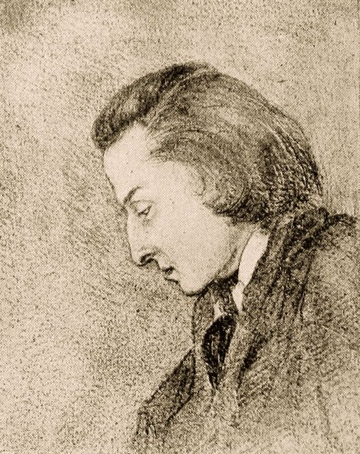 Frederic Chopin